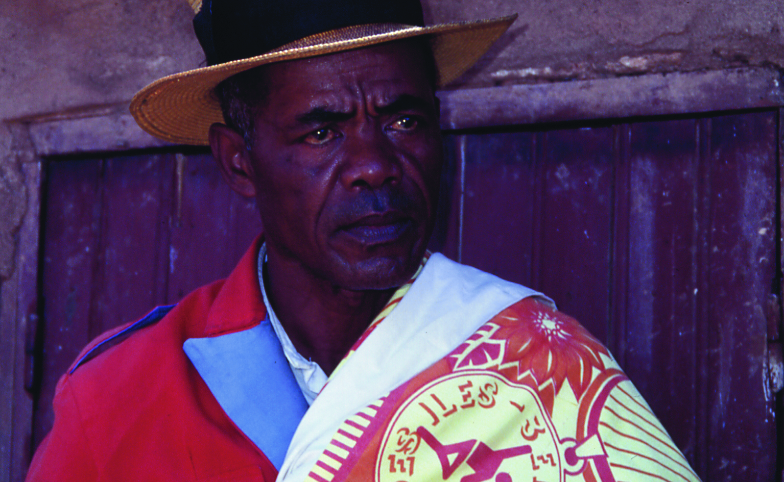 RAMILISON BESIGARA PERFORMING HIRA GASY OPERA IN MADAGASCAR